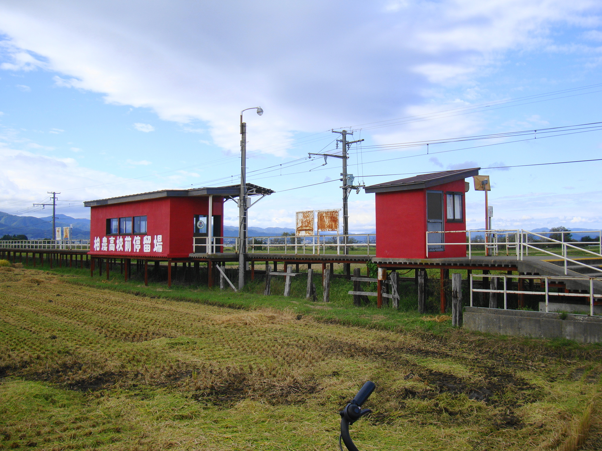 Hakunō Kōkō-mae Station